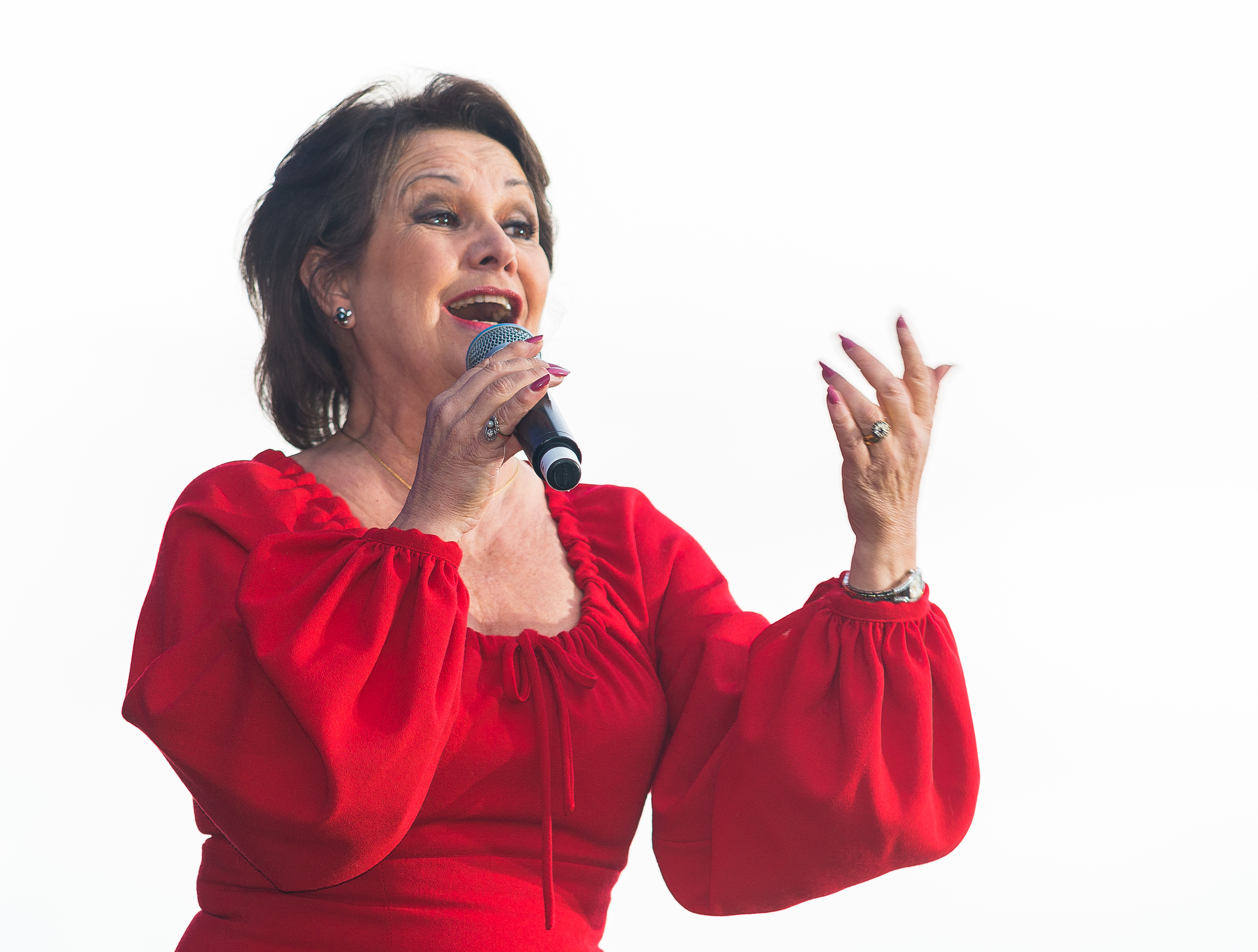 Anne-Marie David at Stockholm Pride 2015